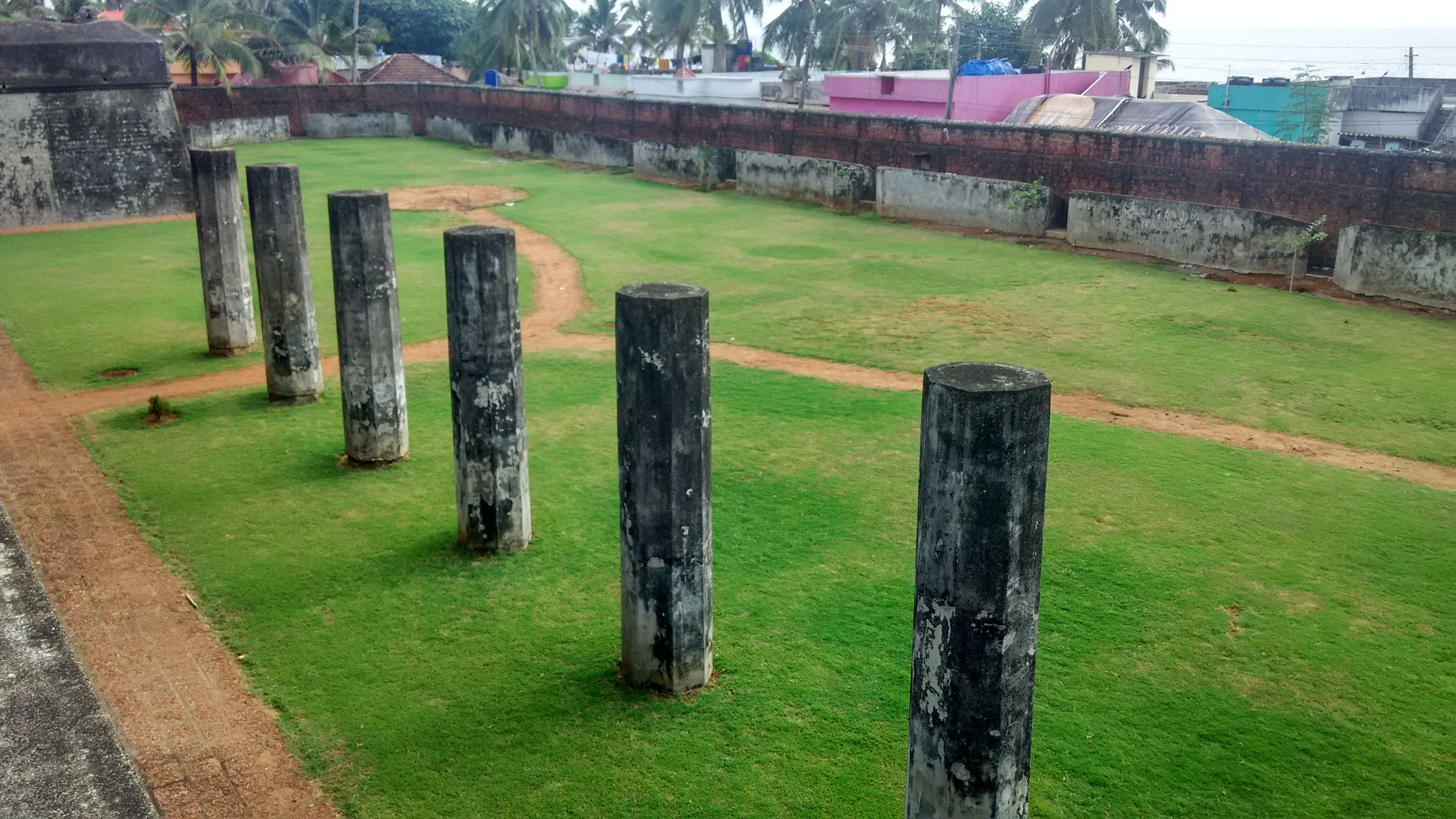 Anchuthengu Fort (also known as Anjengo Fort) was established by the British East India Company (EIC) in 1696 after the Queen of Attingal gave it permission in 1694 to do so. Located near the town of Anchuthengu, the fort served as the first signalling station for ships arriving from England.